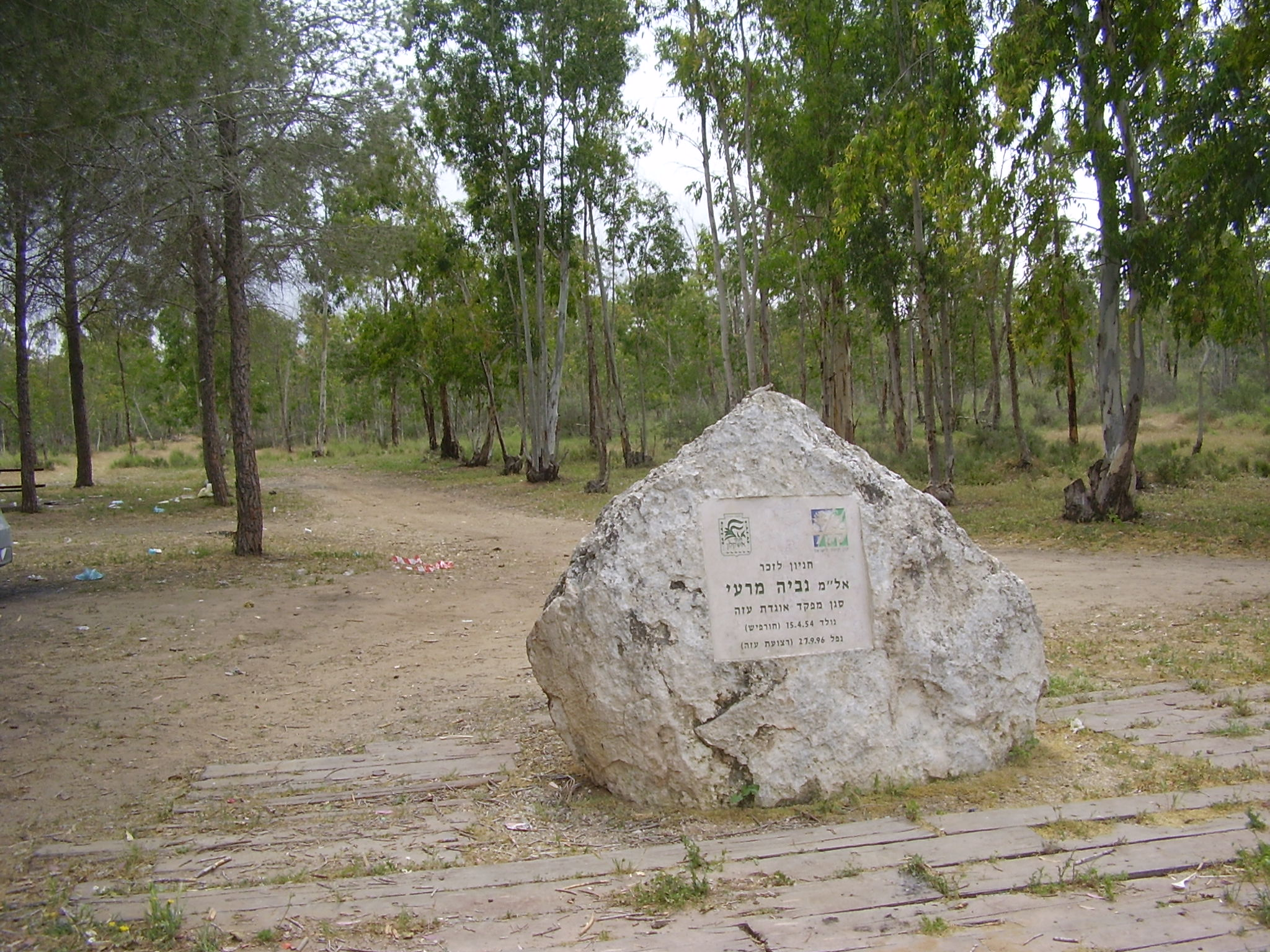 nebia meri park near ashkelon